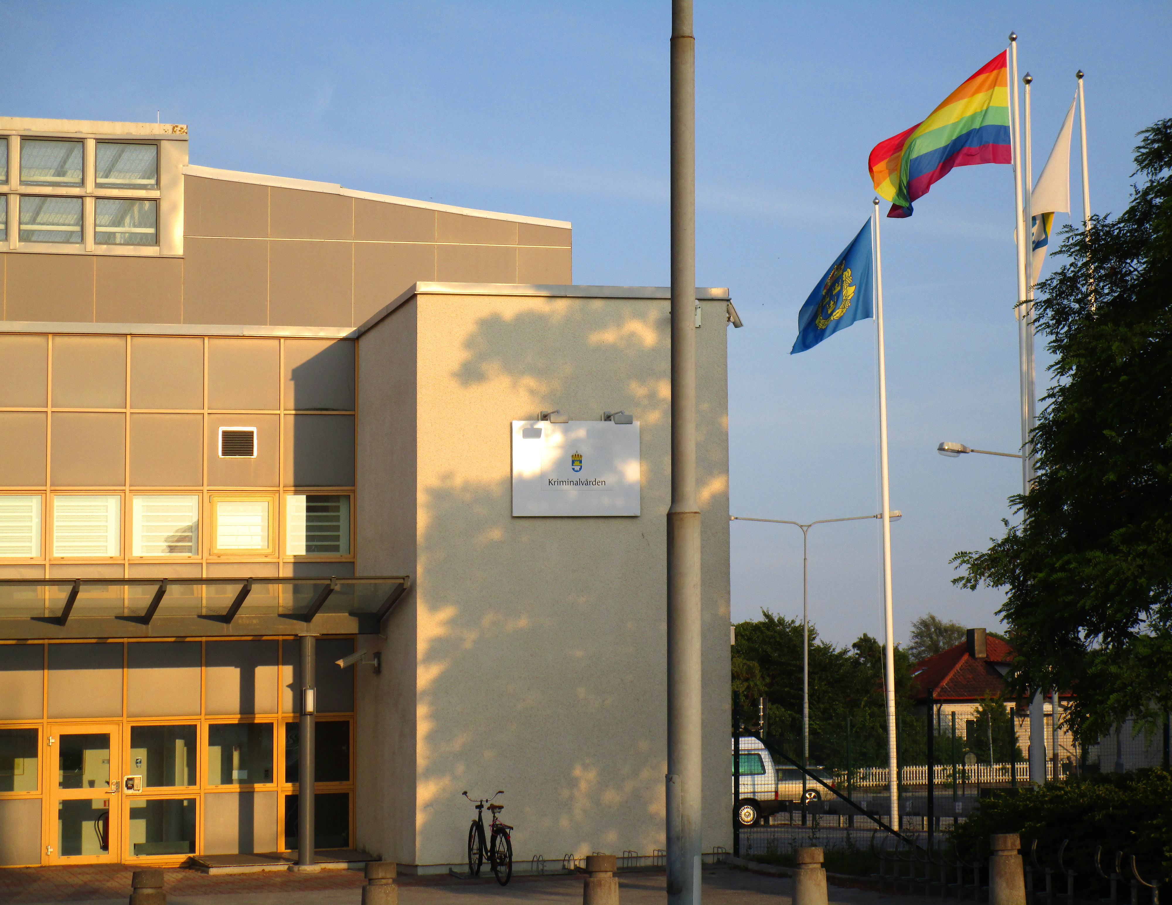 The Visby Police house displaying the LGBT pride flag during Stockholm pride festival, 2014.